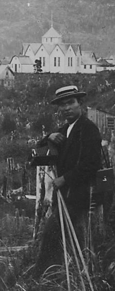 Benjamin Haldane with Camera, Metlakatla Alaska Town Hall in the background. This is a detail cropped from a landscape photograph probably by Haldane. The original is on Commons as File:View of Metlakahtla, Alaska. residences. - NARA - 297865.jpg, which shows Haldane and an assistant in one corner of a large view of Meltakatla. That image was probably produced using a view camera and glass plate. The smaller camera Haldane carries may have been for postcard-size photographs.